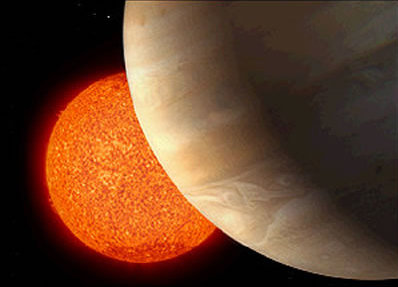 Iota Draconis b (min mass ~8.8 MJ) looking at it's red giant star